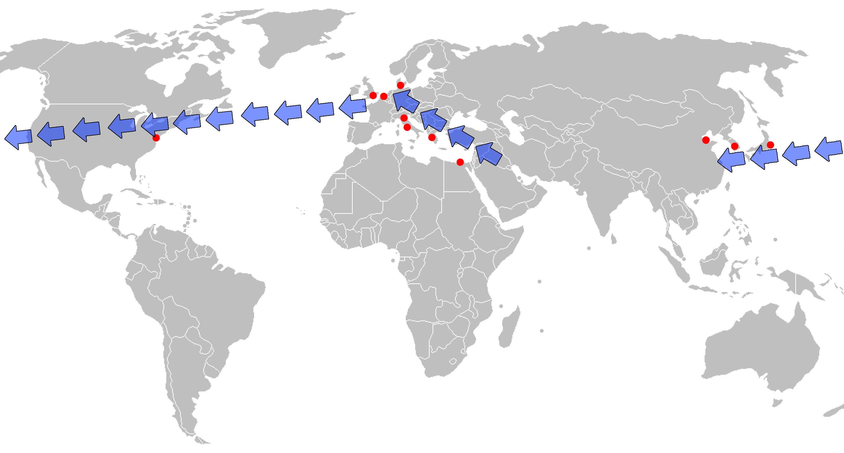 Depiction of Westline Theory on world map